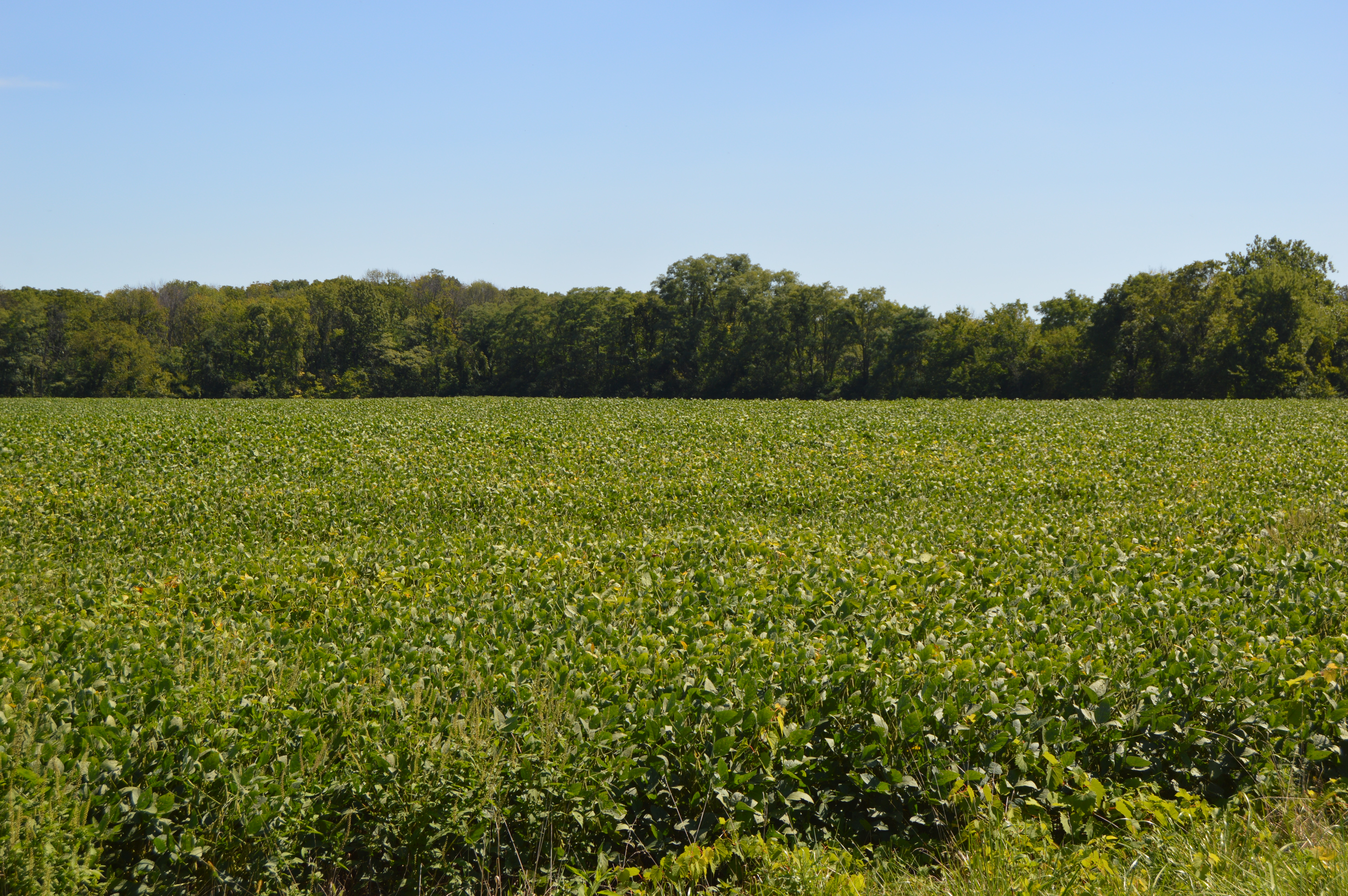 Fields on the eastern side of Quinn Road just north of Sampleville in southwestern Twin Township, Preble County, Ohio, United States.